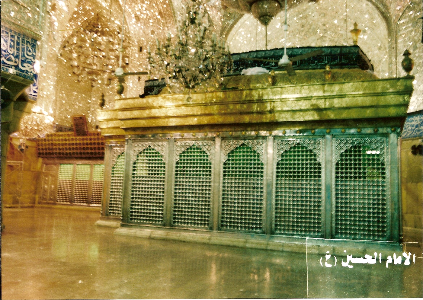 Imam Husayn Mosque - Shrine of: Imam Husayn, Ali Akbar, Ali Asghar, Habib ibn Madhahir, all the martyrs of Karbala, and Ibrahim ibn Imam Musa al-Kadhim. (Karbala, Iraq)